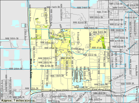 map of Doral, Florida showing city limits